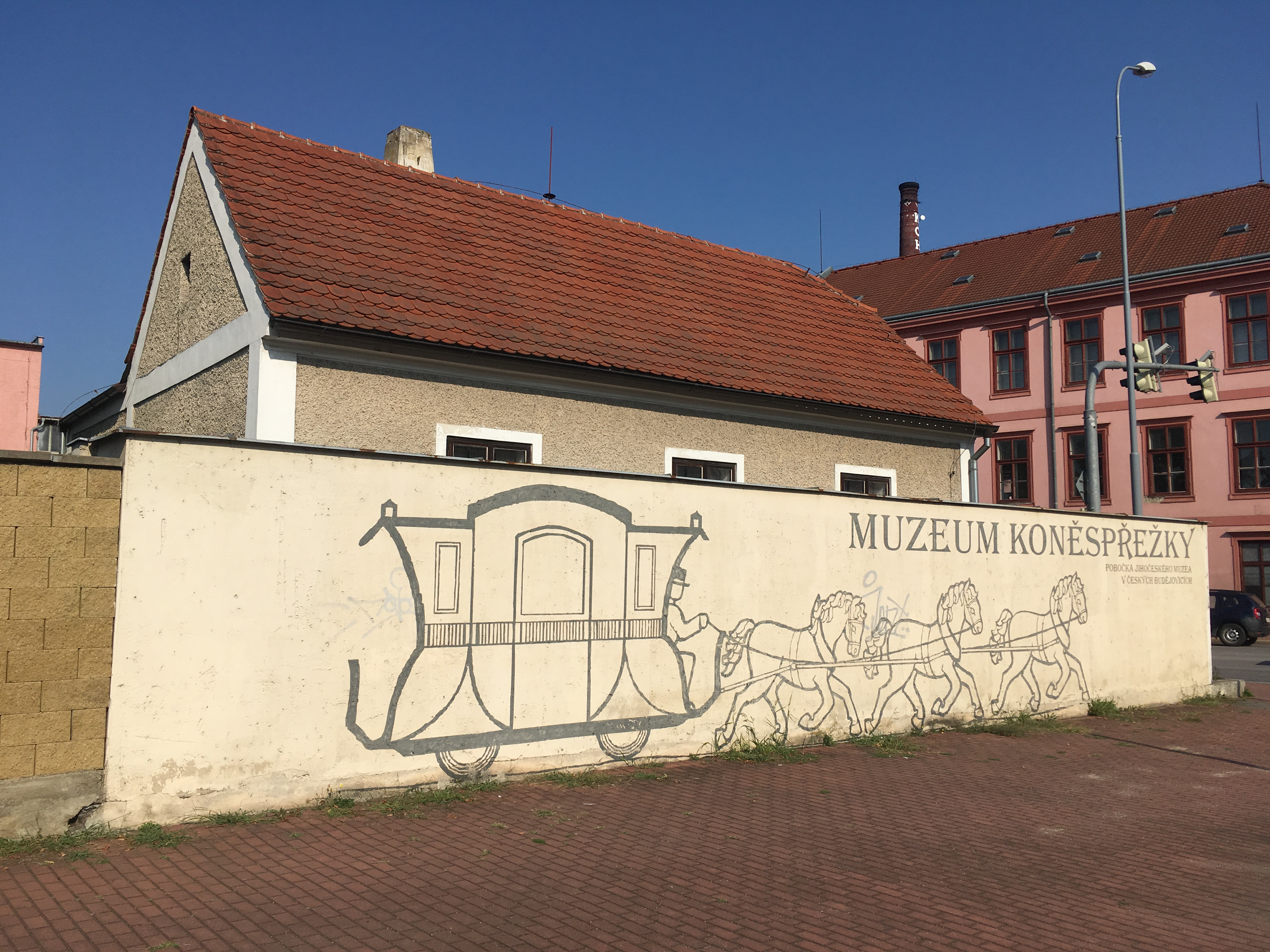 Museum of horse railway in České Budějovice